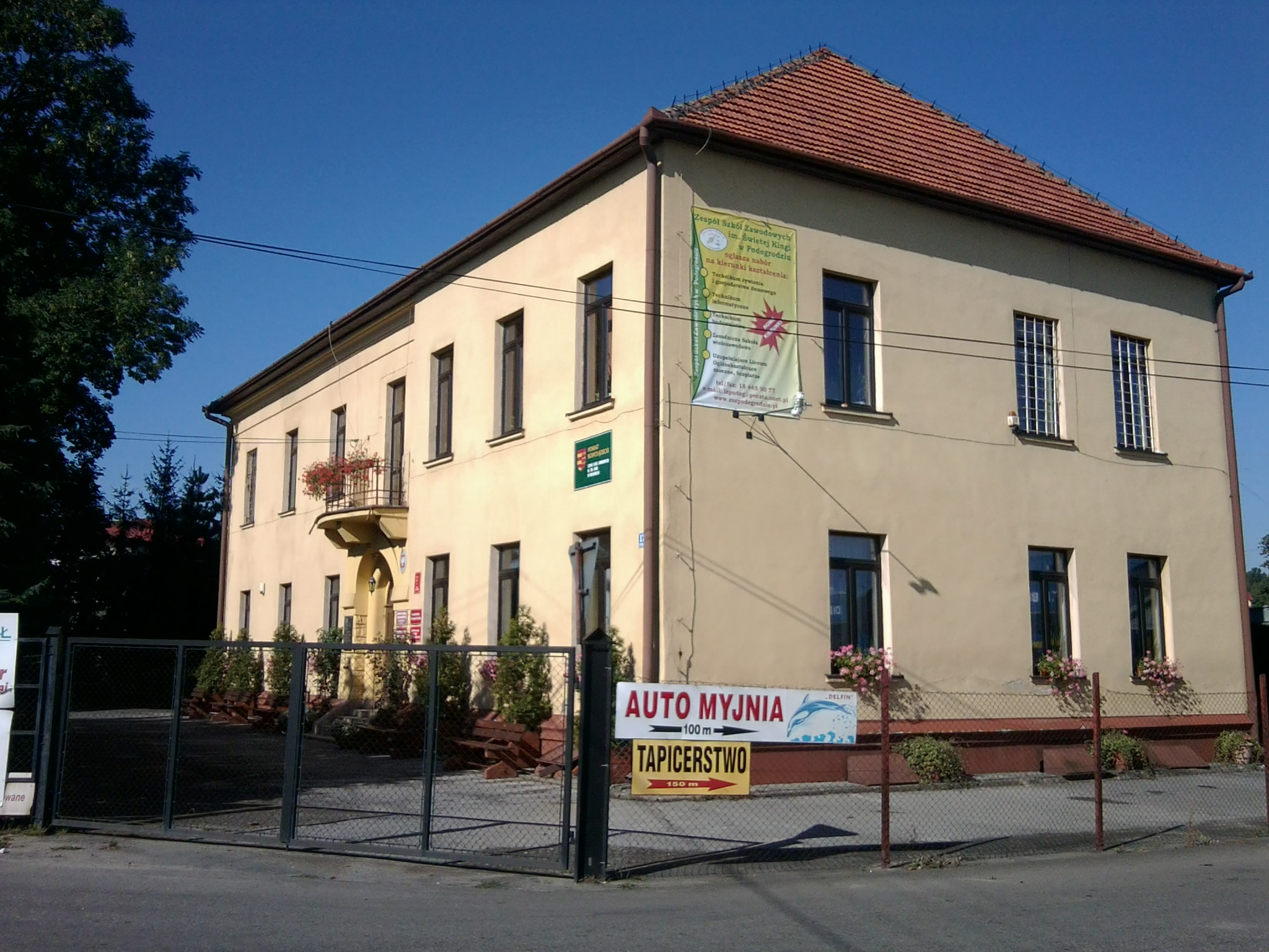 Secondary school in Podegrodzie (Lesser Poland Voivodeship)